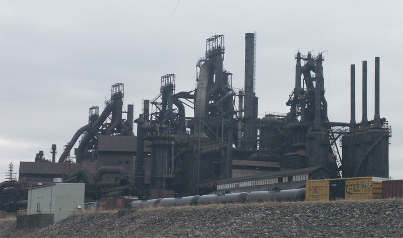 I took this picture and am generous enough to give it to the world.